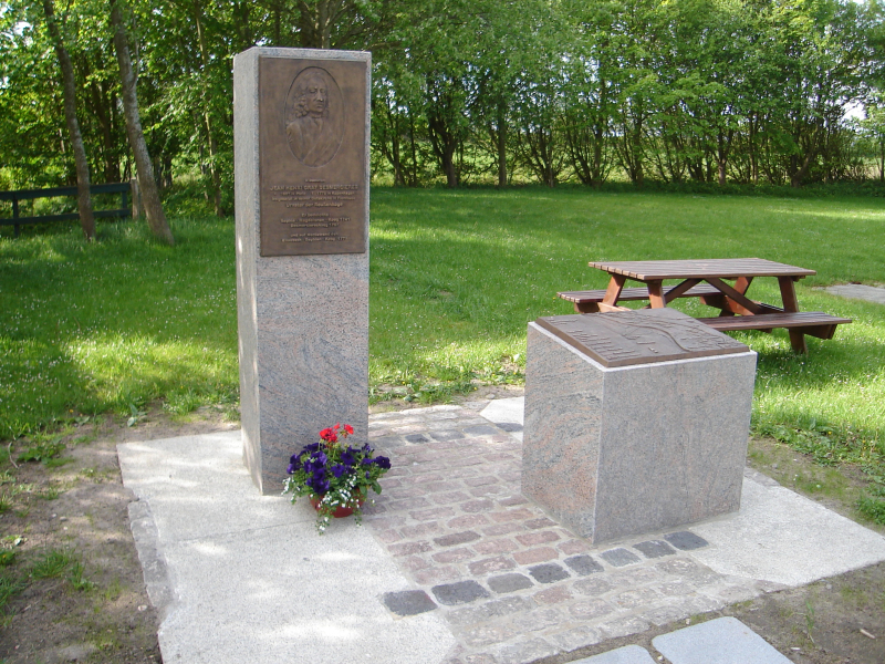 Memorial in honor of Jean Henri Desmercieres, a son of danish earl Jean Henri von Gyldensteen, who has dyked the Sophien-Magdalenen-Koog, Desmerciereskoog, and Elisabeth-Sopien-Koog